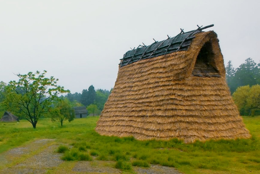 Reconstructed pit dwelling at Chōjagahara Site, Itoigawa, Niigata, Japan